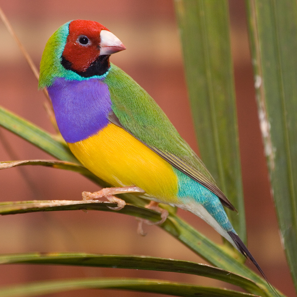 male adult Gouldian Finch